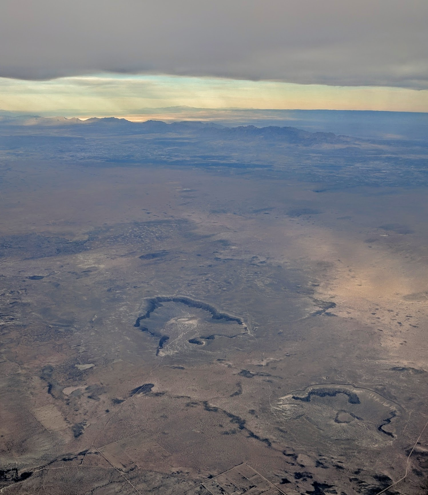 Kilbourne Hole (center) and Hunts Hole (lower right), with White Sands (National Monument and Missile Range) in the sun in the distance beyond the Organ Mountains.